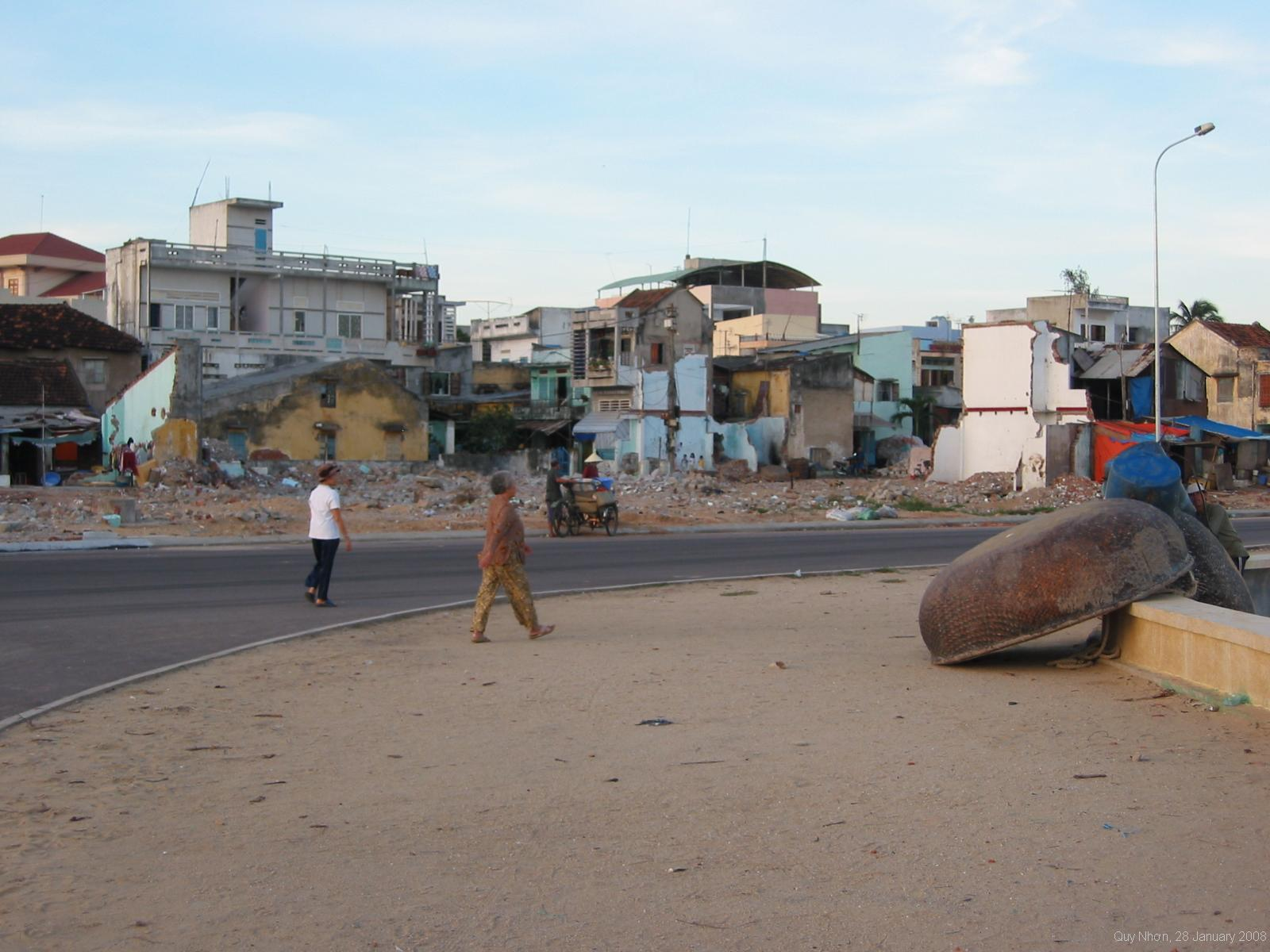 Part of Quy Nhơn being redeveloped